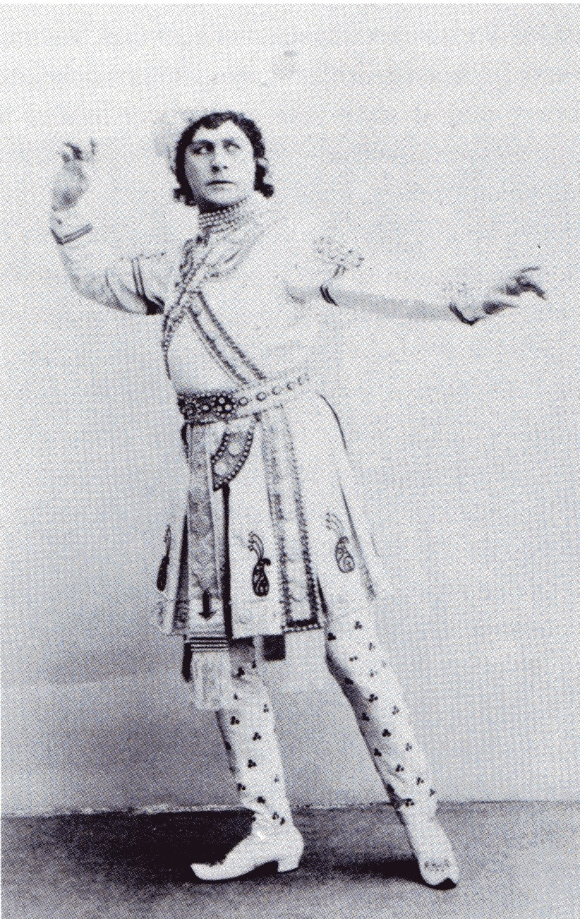 Original Description is here